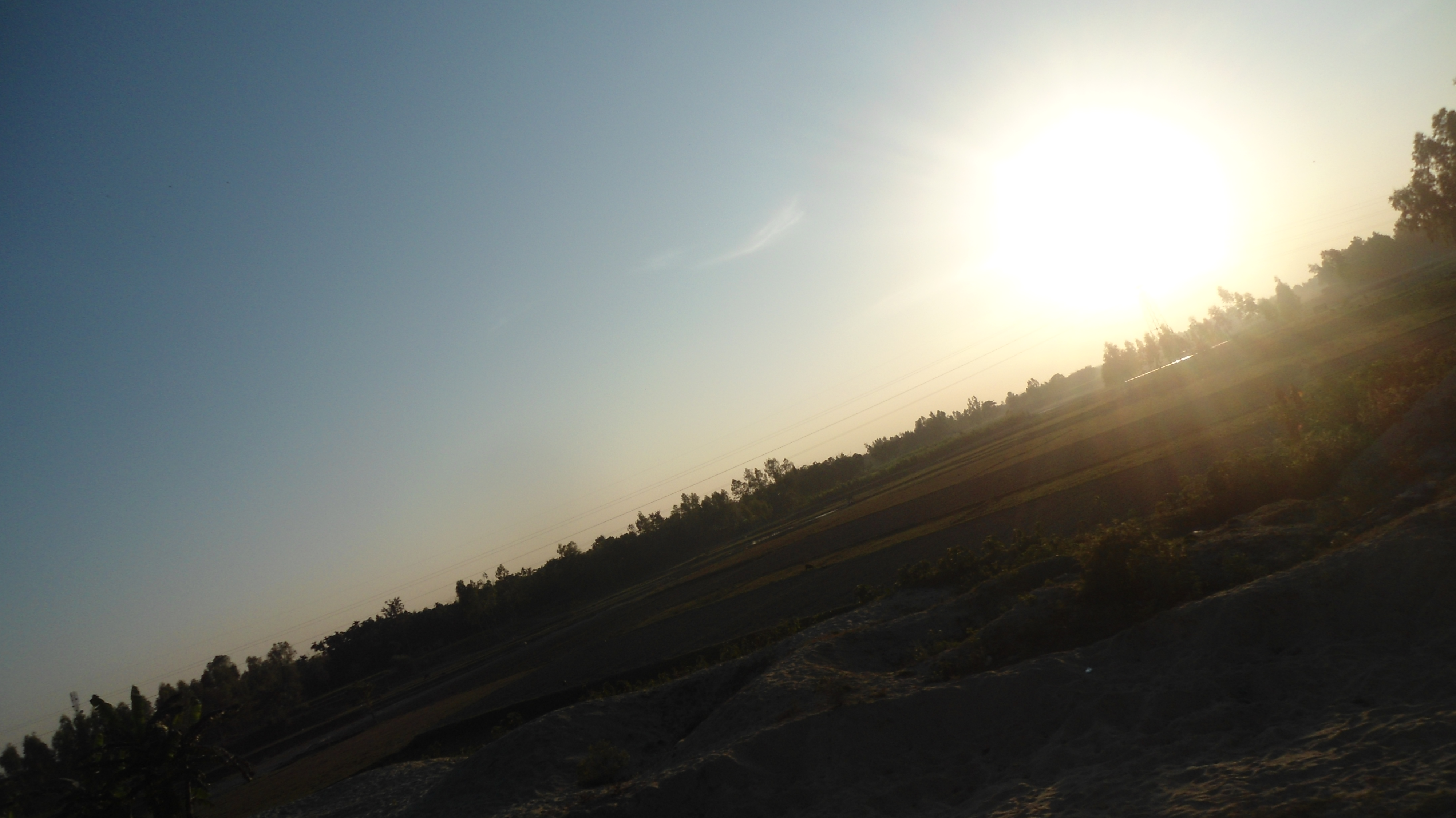 From Dhaka Bogra Highway